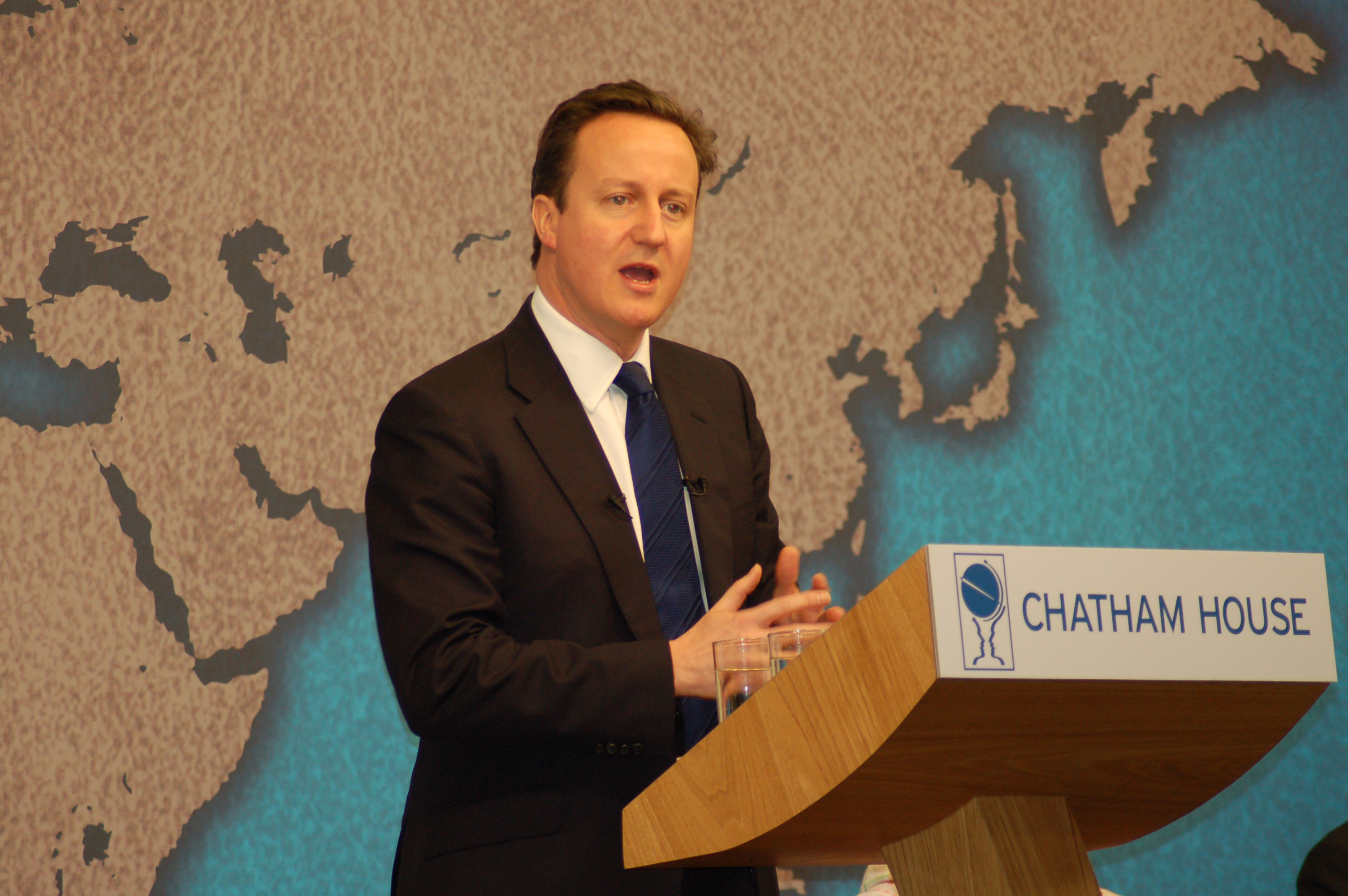 15 January 2010